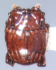 Ulkeus sp., dead specimen